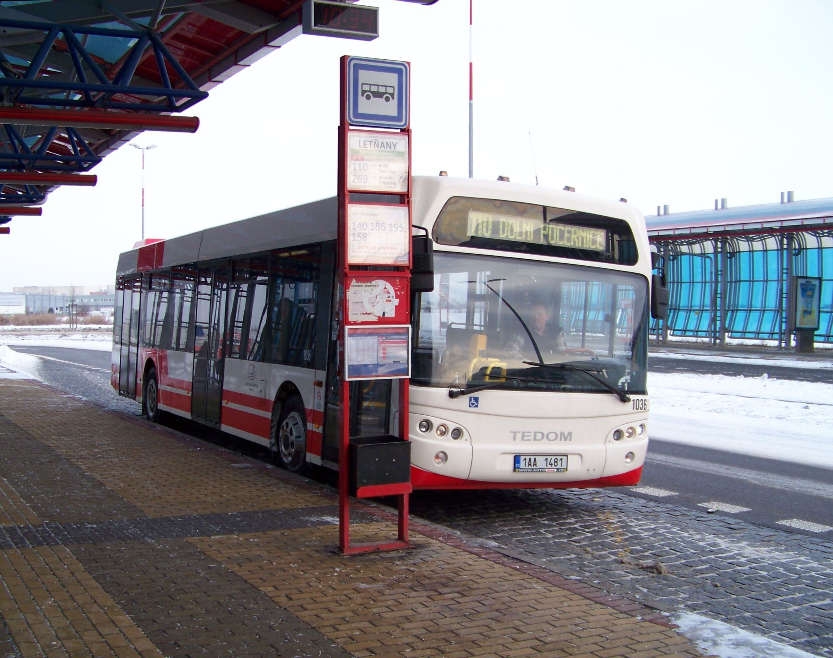 Prague-Letňany, the Czech Republic. Bus terminal near Letňany metro station, a bus TEDOM Kronos 123 D of Jaroslav Štěpánek on the line 110.